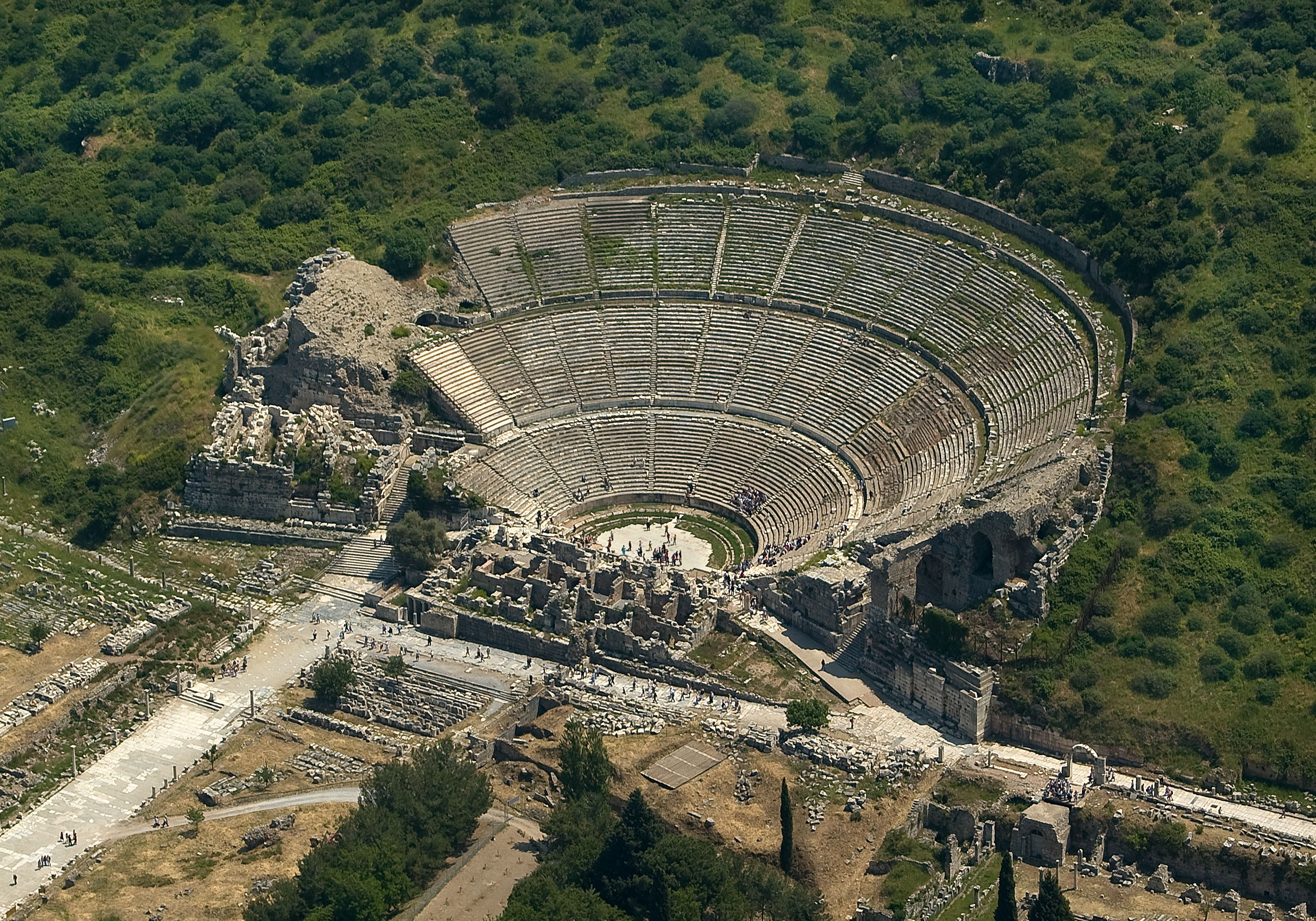 Great Theatre, Ephesus